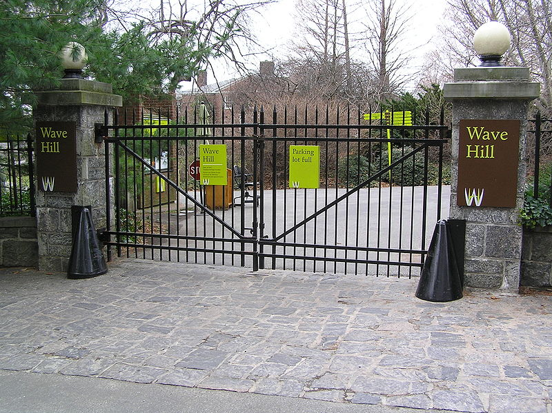 Wave Hill, National Register of Historic Places listings in Bronx County, New York